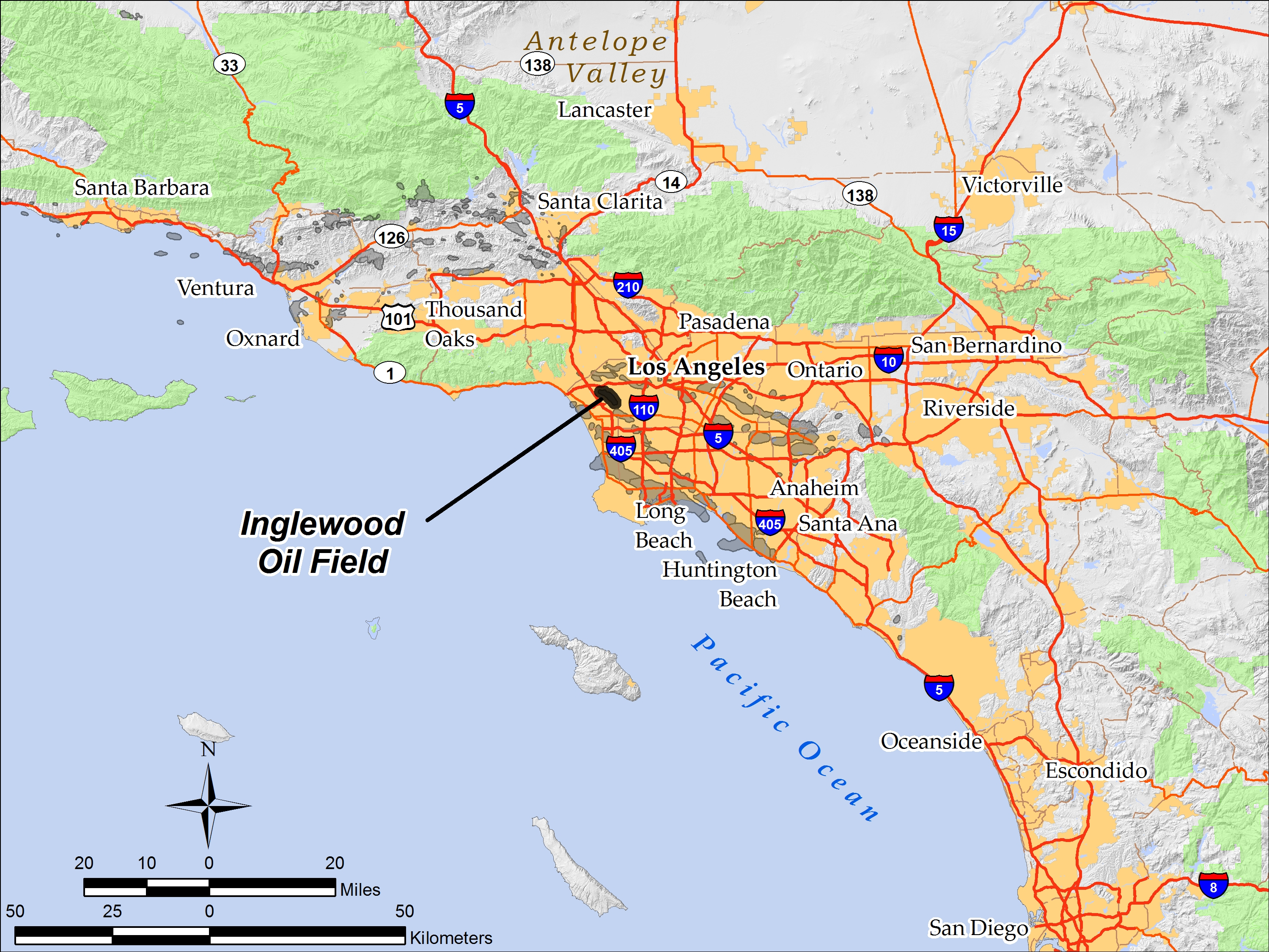 Location of Inglewood oil field in the Los Angeles Basin. By self, GFDL/CC by sa 3.0 - made in ArcGIS 10.2 using public domain data